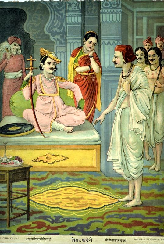 Virat Kacheri Early Lithograph by Ravi Varma Press 14 x 10 inches Code No: 11564 Price on Request 0 View to Scale Overview Specifications Contact Us Early Lithograph by Ravi Varma Press Virat Kacheri 14 x 10 inches | 35.5 x 25.4 cms